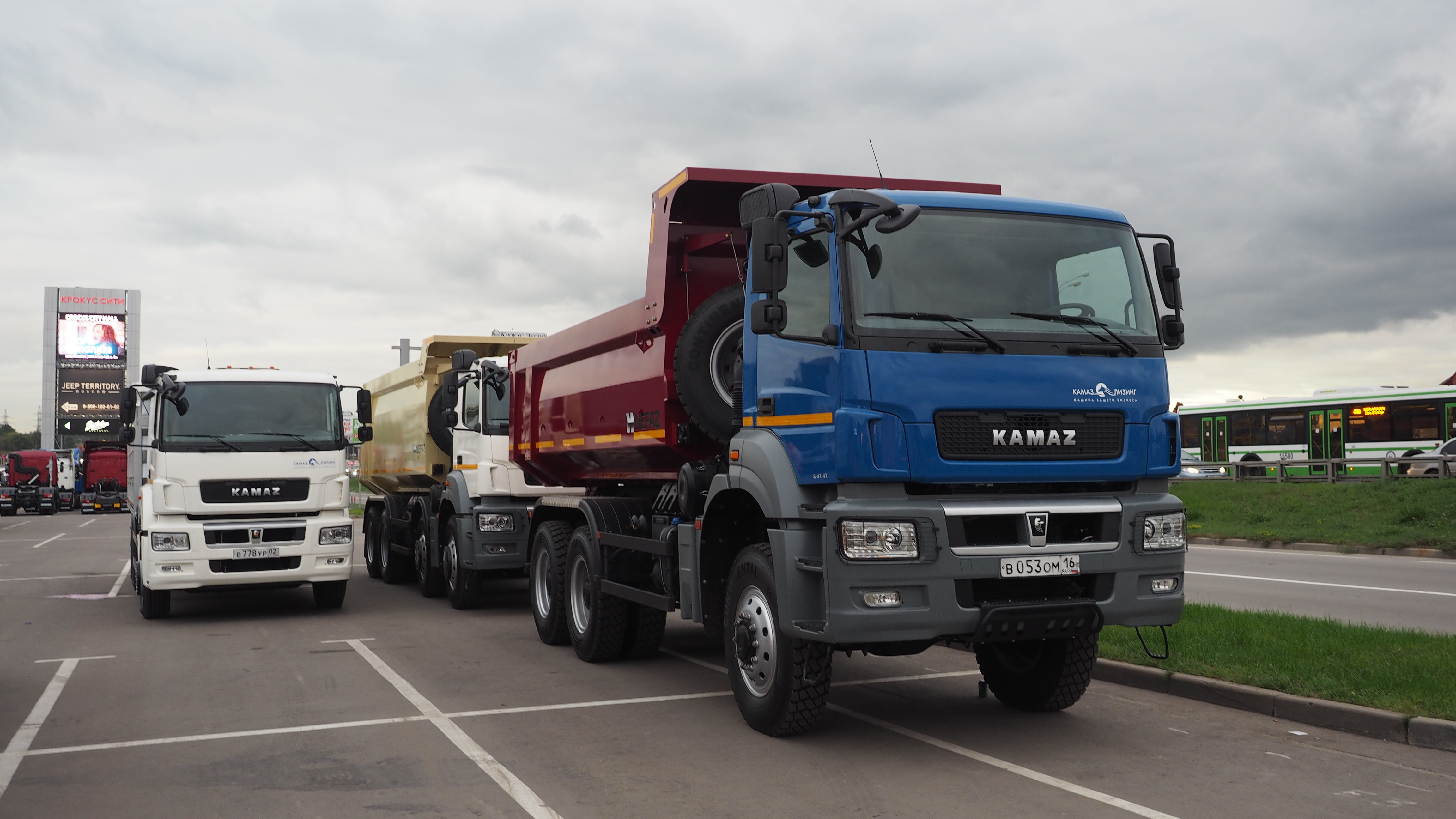 KAMAZ 6580 family. Comtrans 2015 exhibition in Moscow.